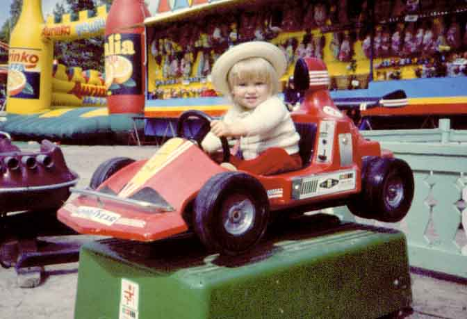 From English Wikipedia. Girl pretendnig to drive a toy car.